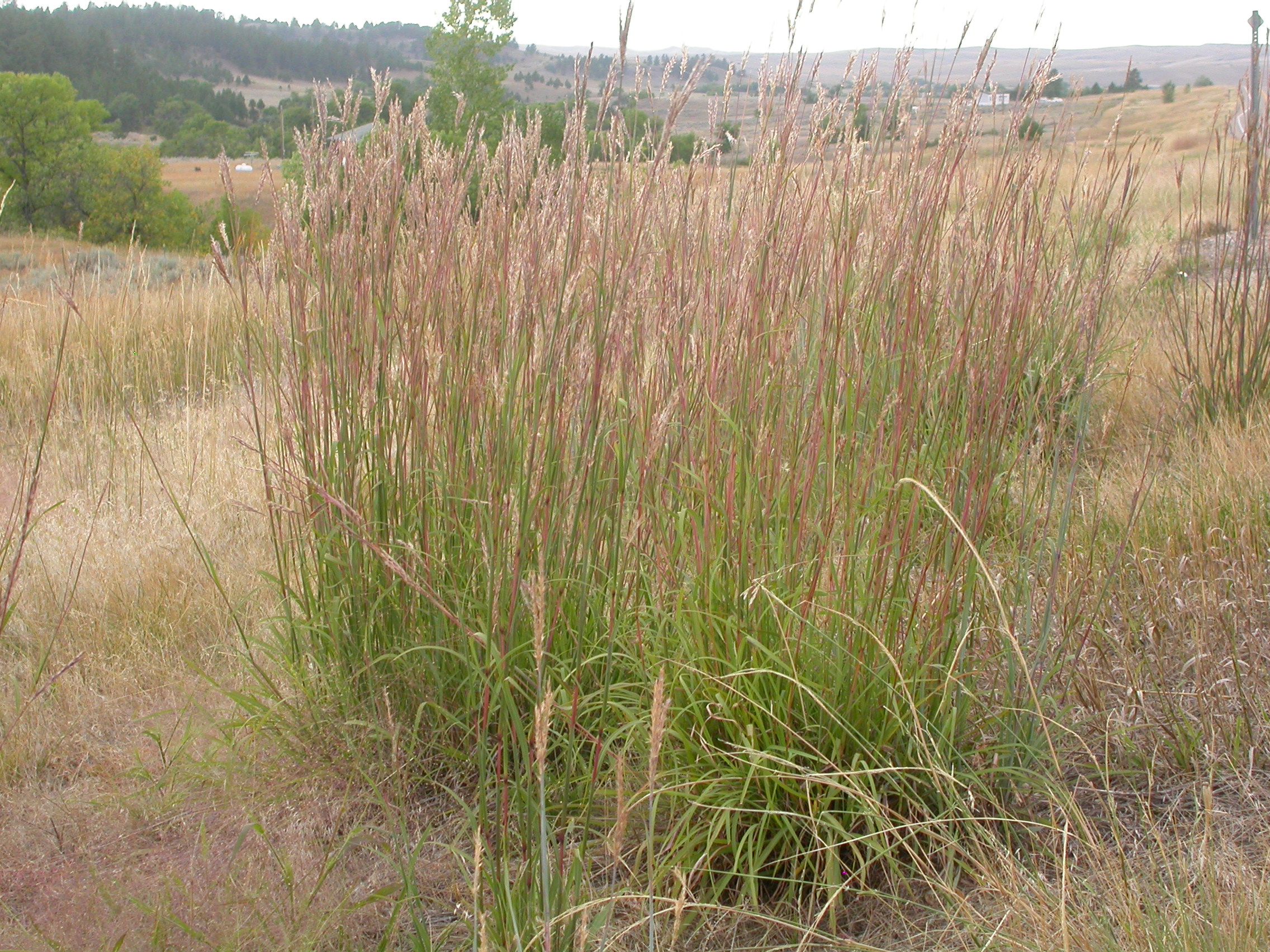 The bunched habit is revealed along mowed roadsides during late summer where the cool season grasses (e.g., Bromus inermis) have not put on growth since mid summer mowing whereas Andropogon has. Most of the warm season grass diversity and abundance in eastern Montana is found roadside and not as much in native vegetation cover (where such exists).